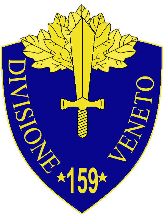 159a Divisione Fanteria Veneto insignia, Regio Esercito, Italy, WWII